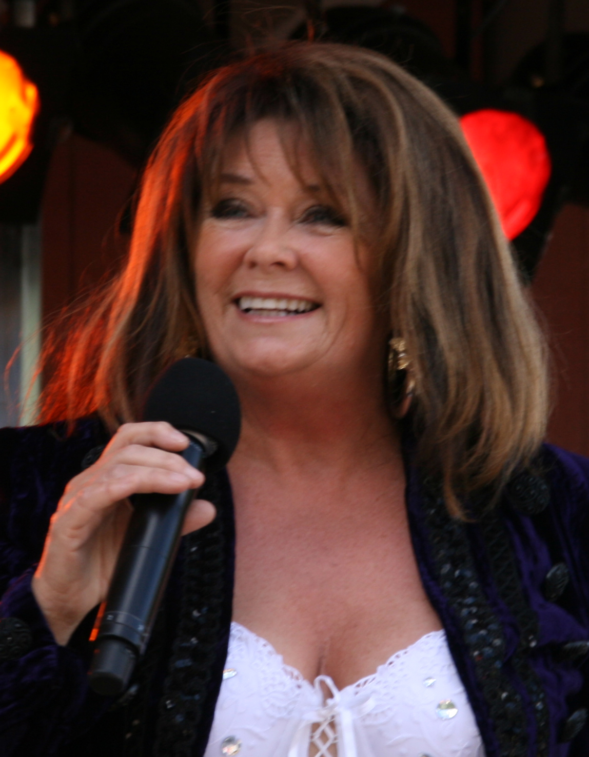 Wenche Myhre performing at Pillarguridagene in Otta, Norway on August 29th 2009